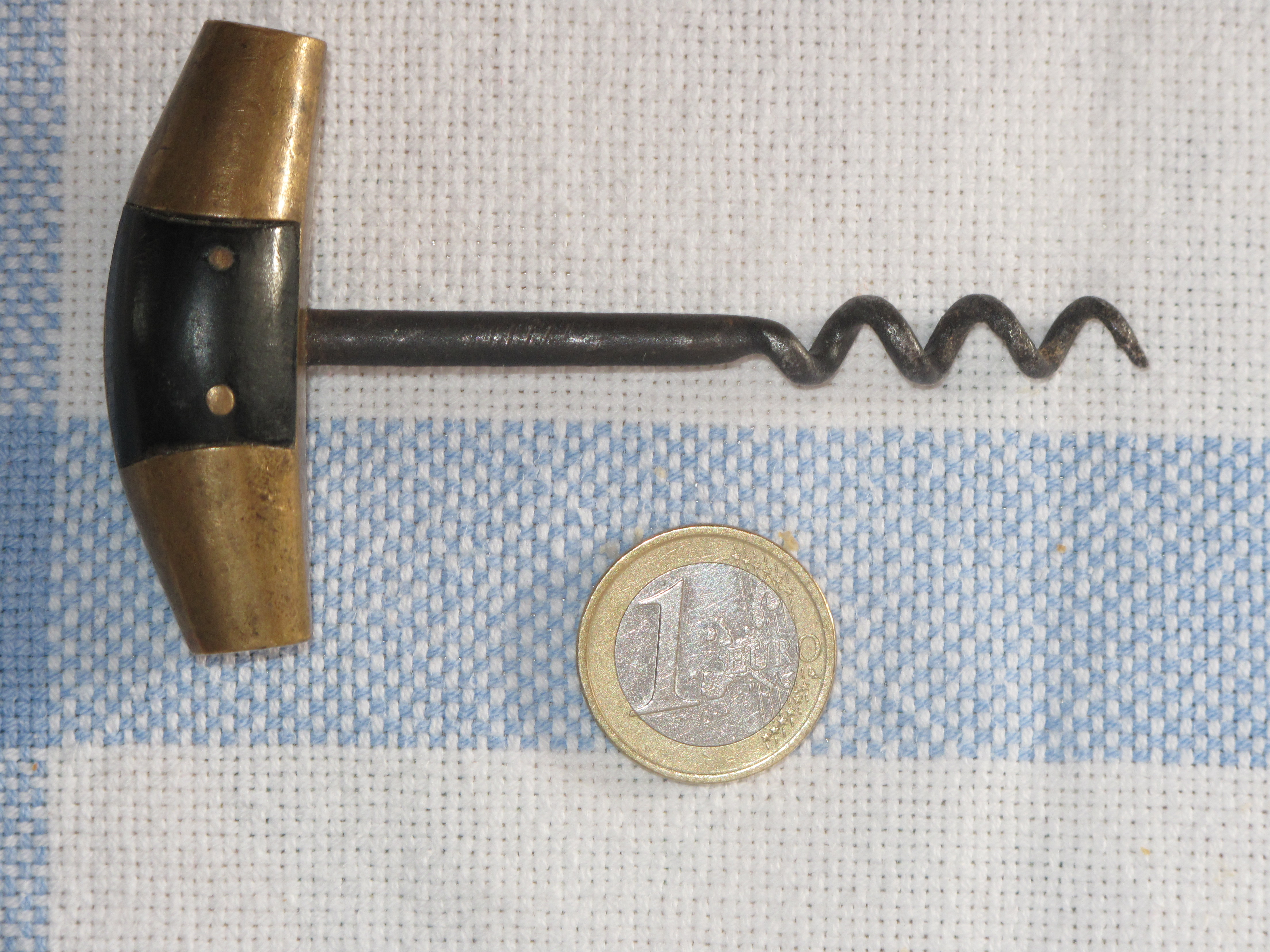 Traditional metallic screwdriver, France